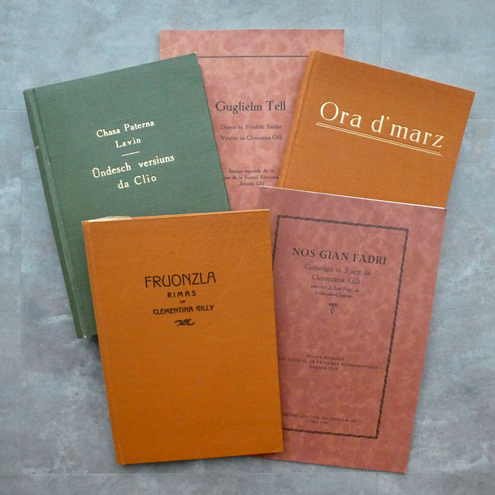 Clementina Gillys publications